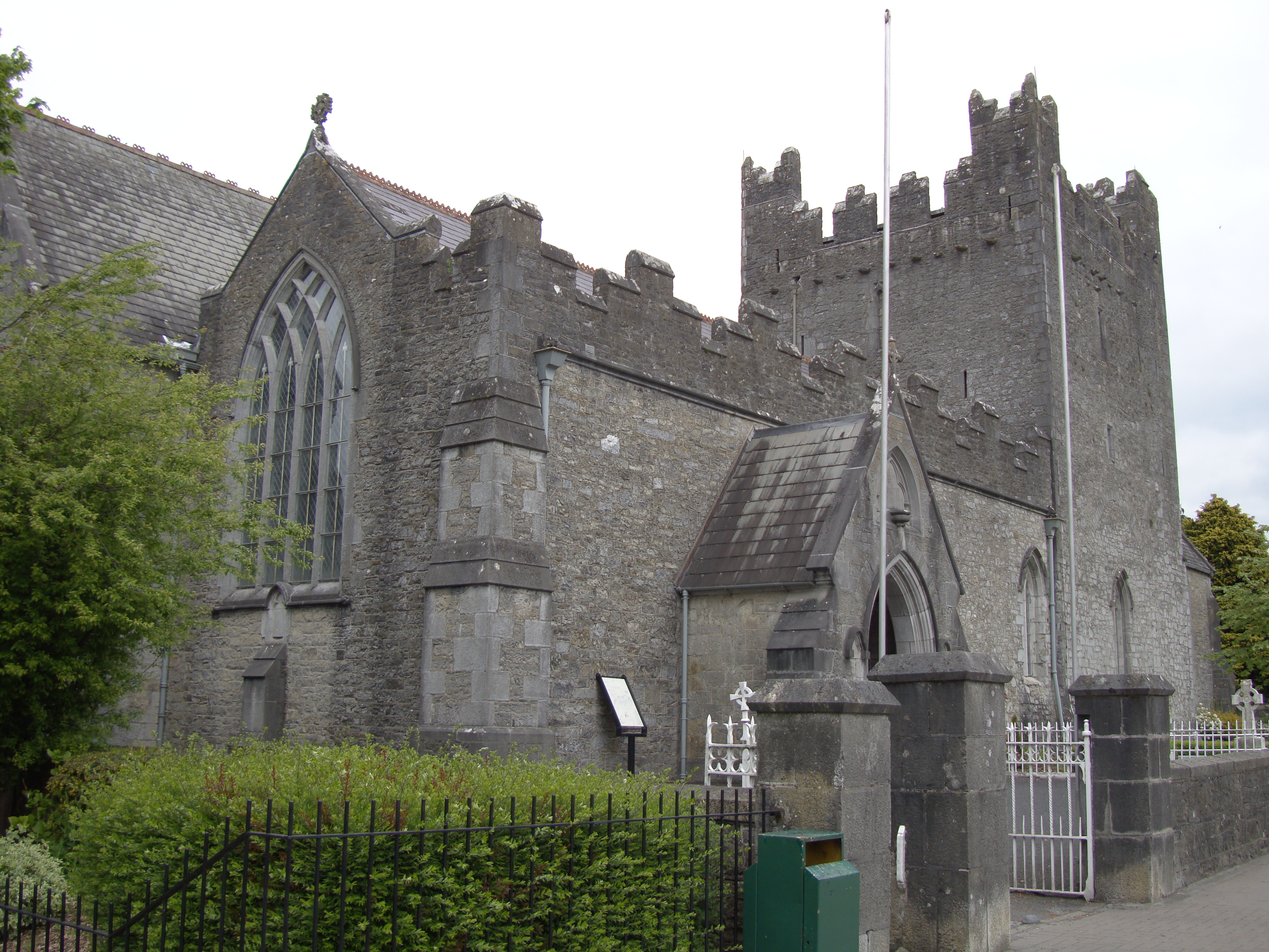 Photograph of the Trinitarian Monastery, Adare, Co. Limerick, Ireland